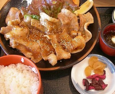 shogayaki (Japanese:生姜焼き) Ginger Pork. Bottom part of the original photo that showed the resturant name has been cut off.